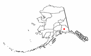 Adapted from Wikipedia's AK borough maps by Seth Ilys.